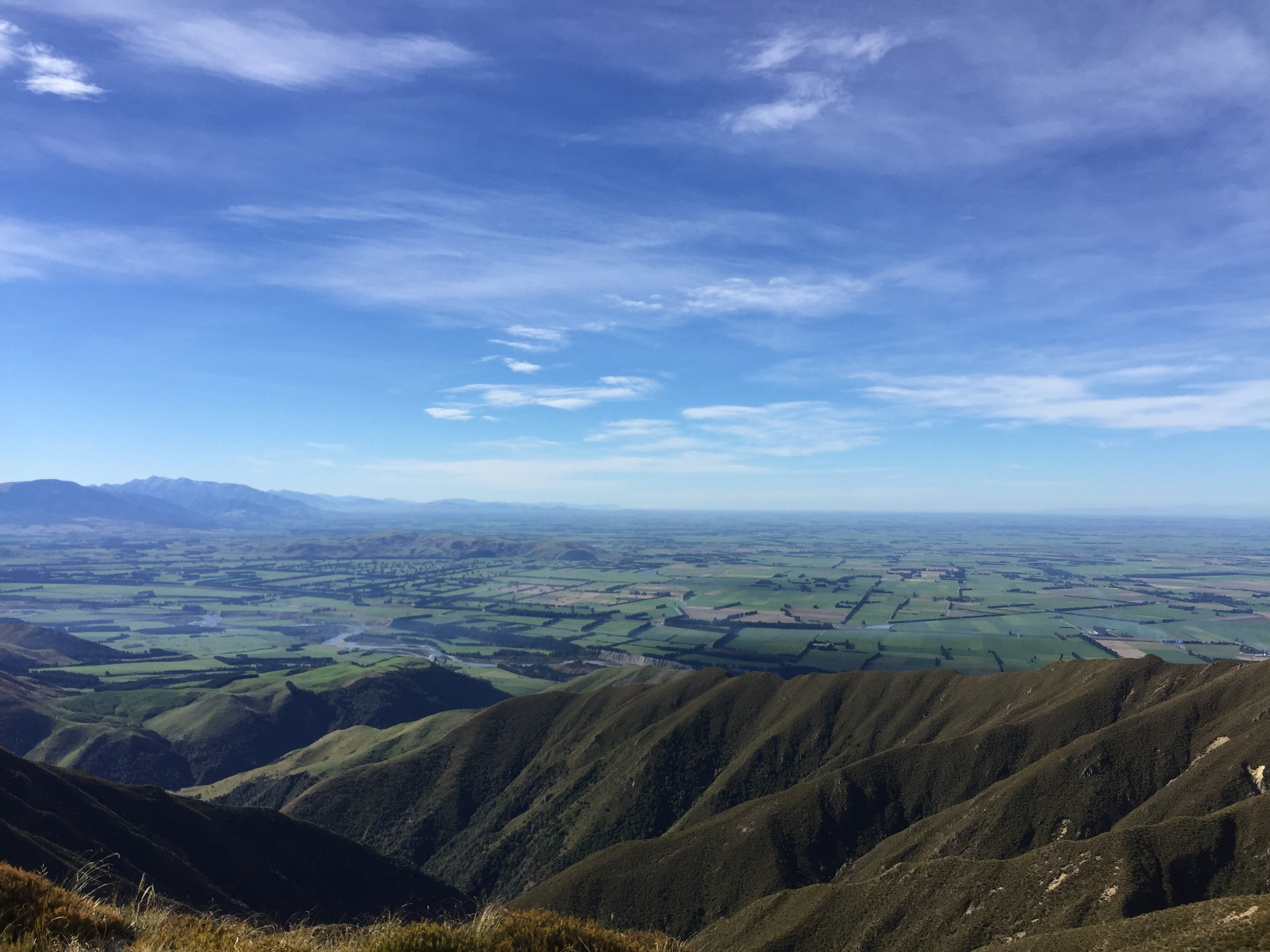 A view from Middle Mt Peel looking out over the Canterbury Plains.